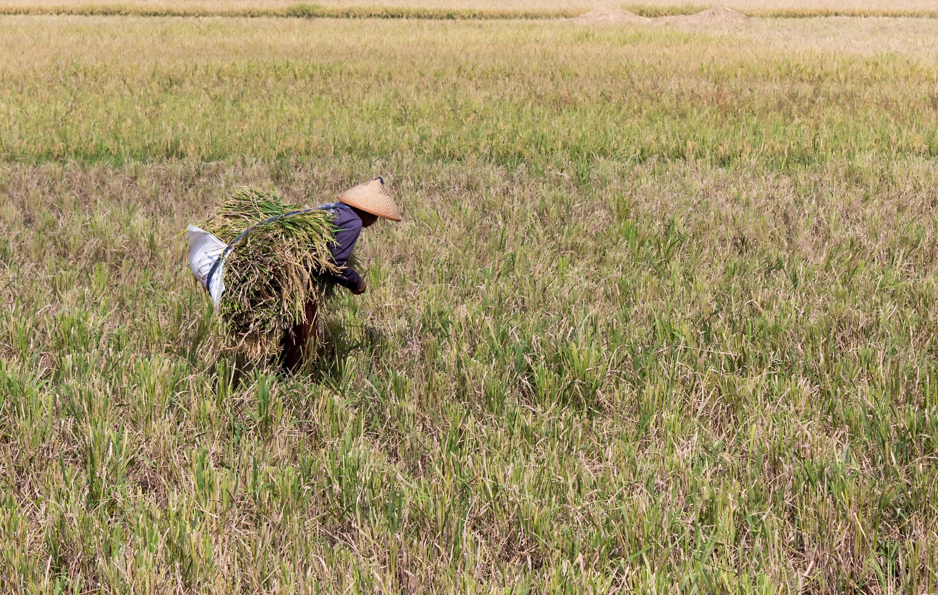 Farmer harvesting rice, Kampung Rawa 2014-06-20